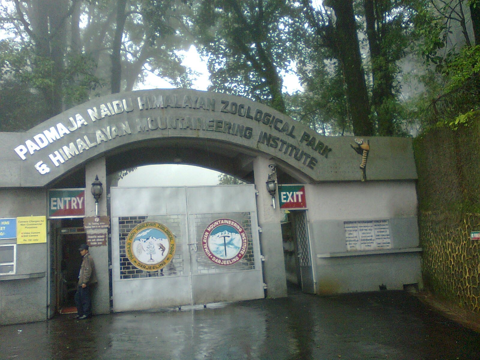 Padmaja Naidu Himalayal Zoo & Himalayan Mountaineering Institute